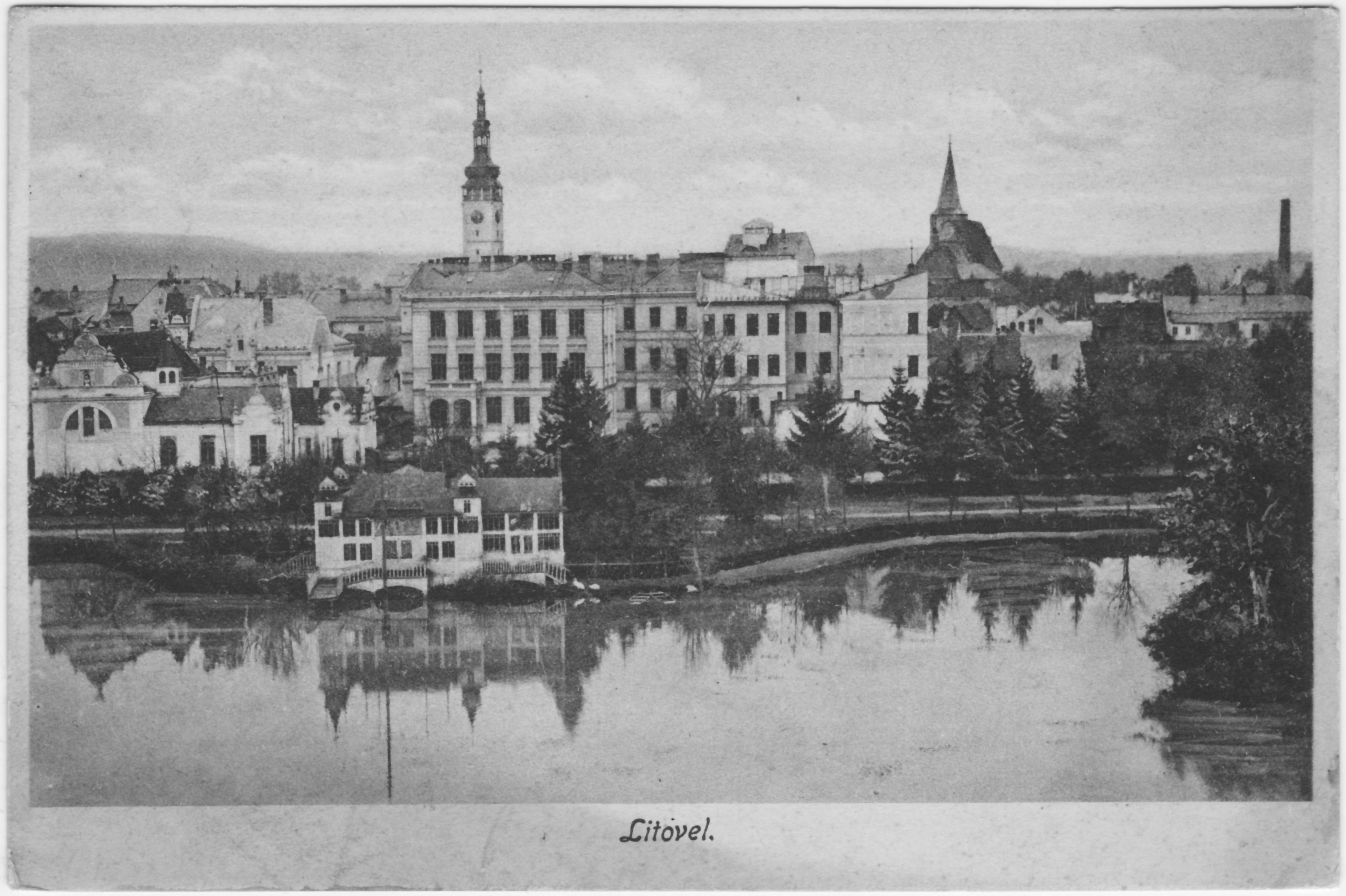 Historical postcard of Litovel. Publishing details: Litografia. Published by Fabián Lakomý, papírnictví a knihařství, Litovel. The message on the reverse is dated on 8 October 1927.